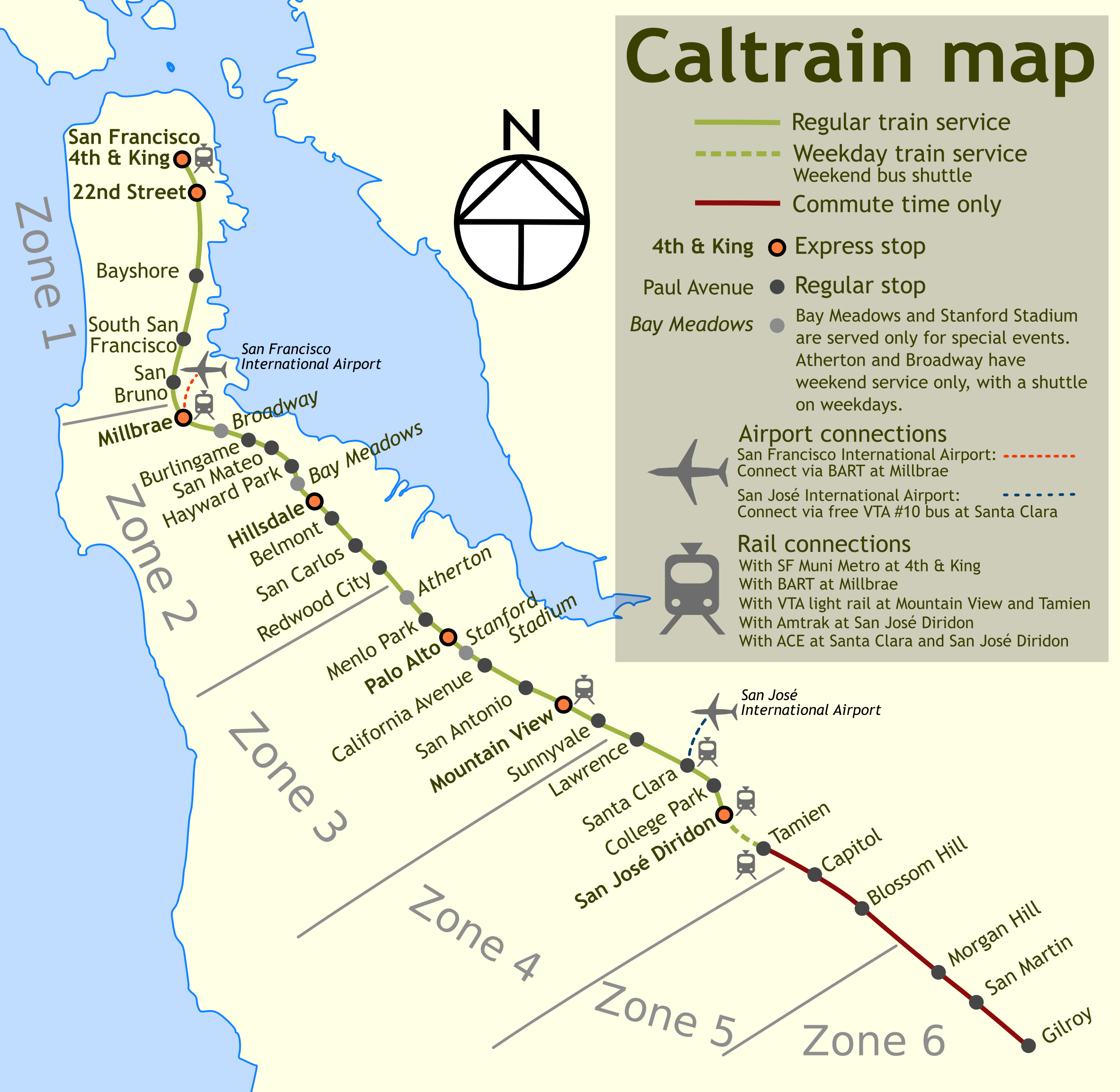 Caltrain system map